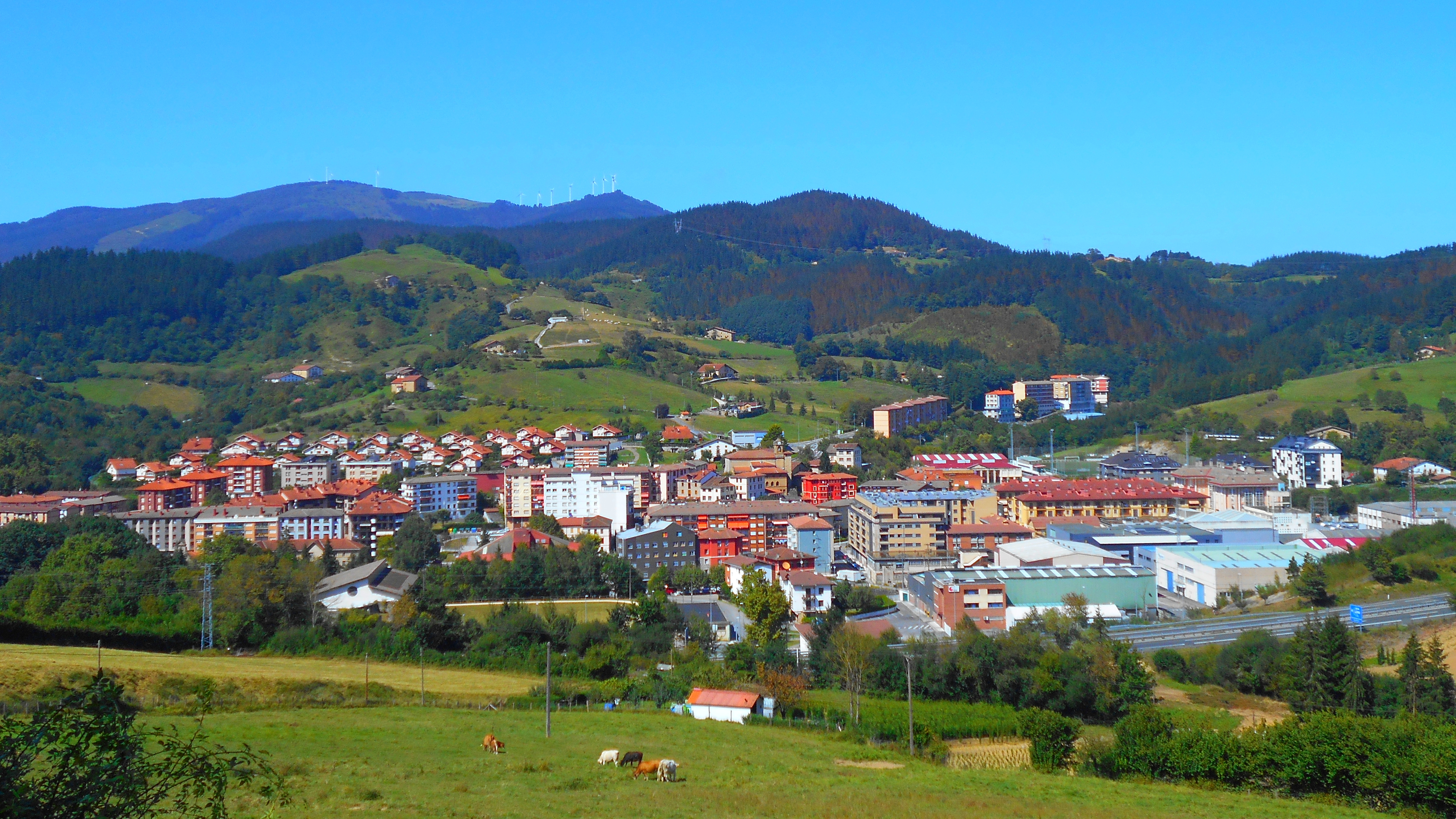 Main view of Zaldibar (September 2018)